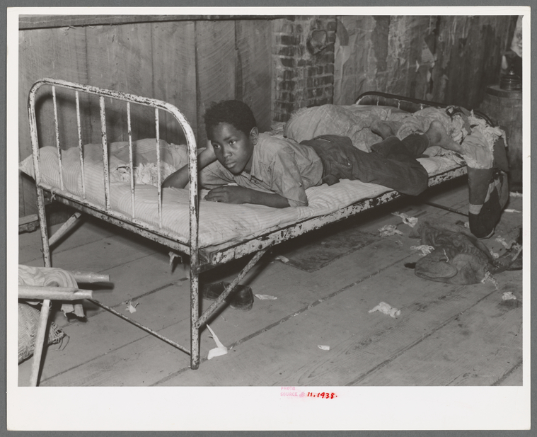 TMS ID: 66686 TMS Object Number: 031266-D Universal Unique Identifier (UUID): 0028daa0-0220-0137-b199-3bf830e9524d